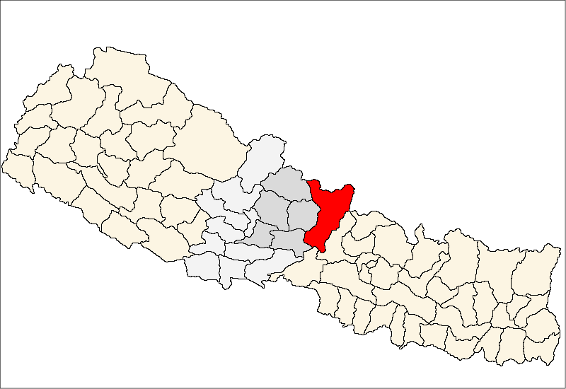 FrenchCarte de localisation dudistrict de Gorkha(wp-FR),au Népal (wp-FR).EnglishLocation map ofGorkha District(wp-EN),in Nepal (wp-EN).